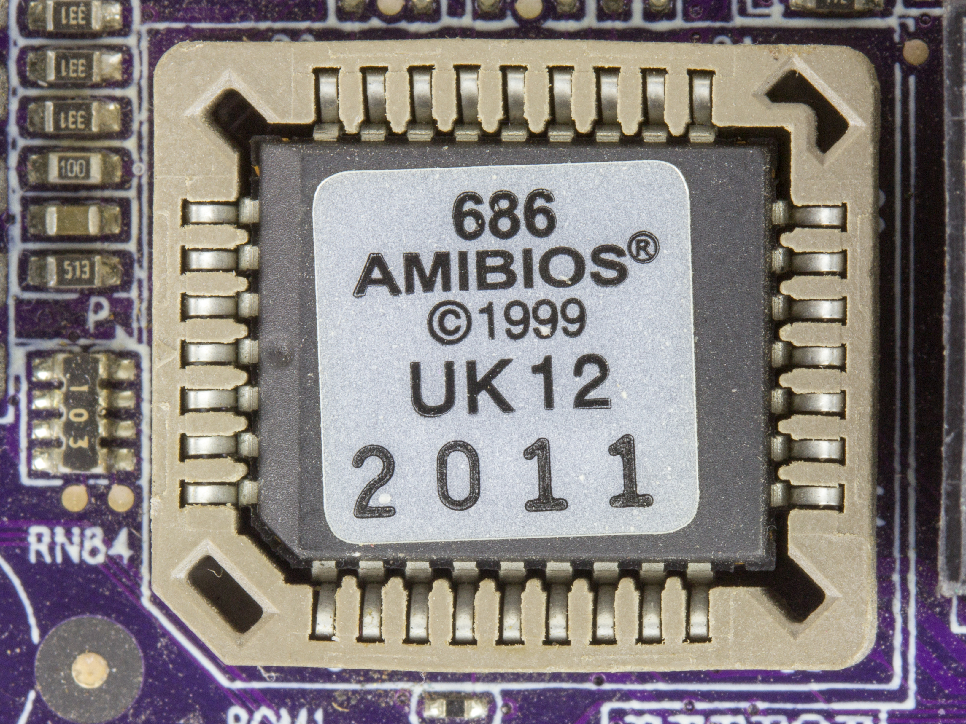 Elitegroup 761GX-M754 - AMIBIOS (American Megatrends) in a Winbond W39V040APZ - Flash memory